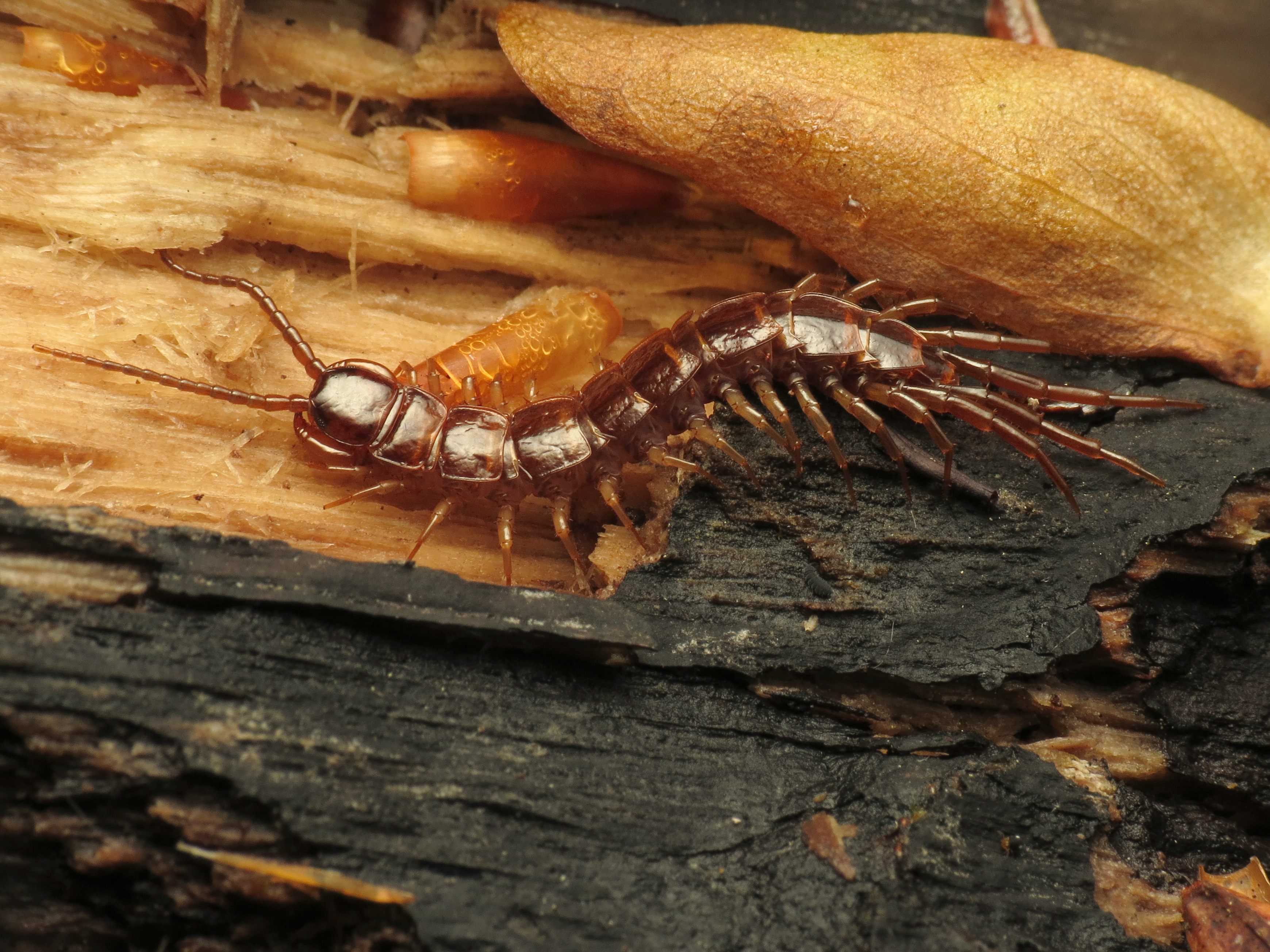 Lithobiomorpha sp. Rock Creek Park, Washington, DC, USA.